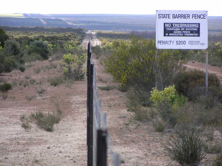 current view of rabbit proof fence near Lake King, Western Australia in 2005